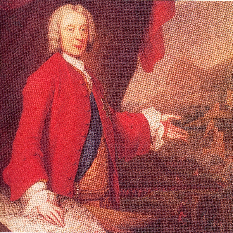 John Campbell, 2nd Duke of Argyll